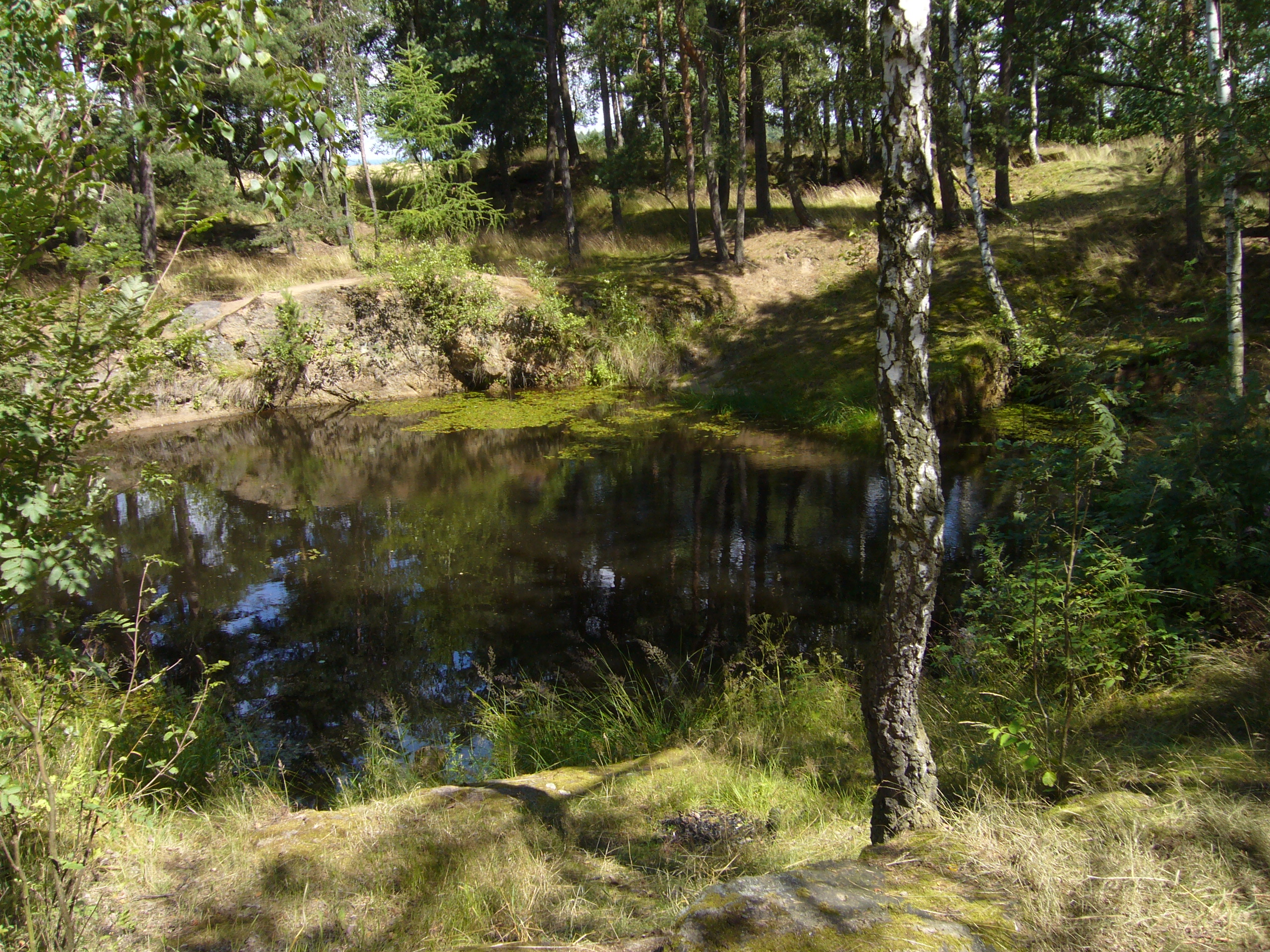 The swamped quarry in the natural monument Soseňský lom.